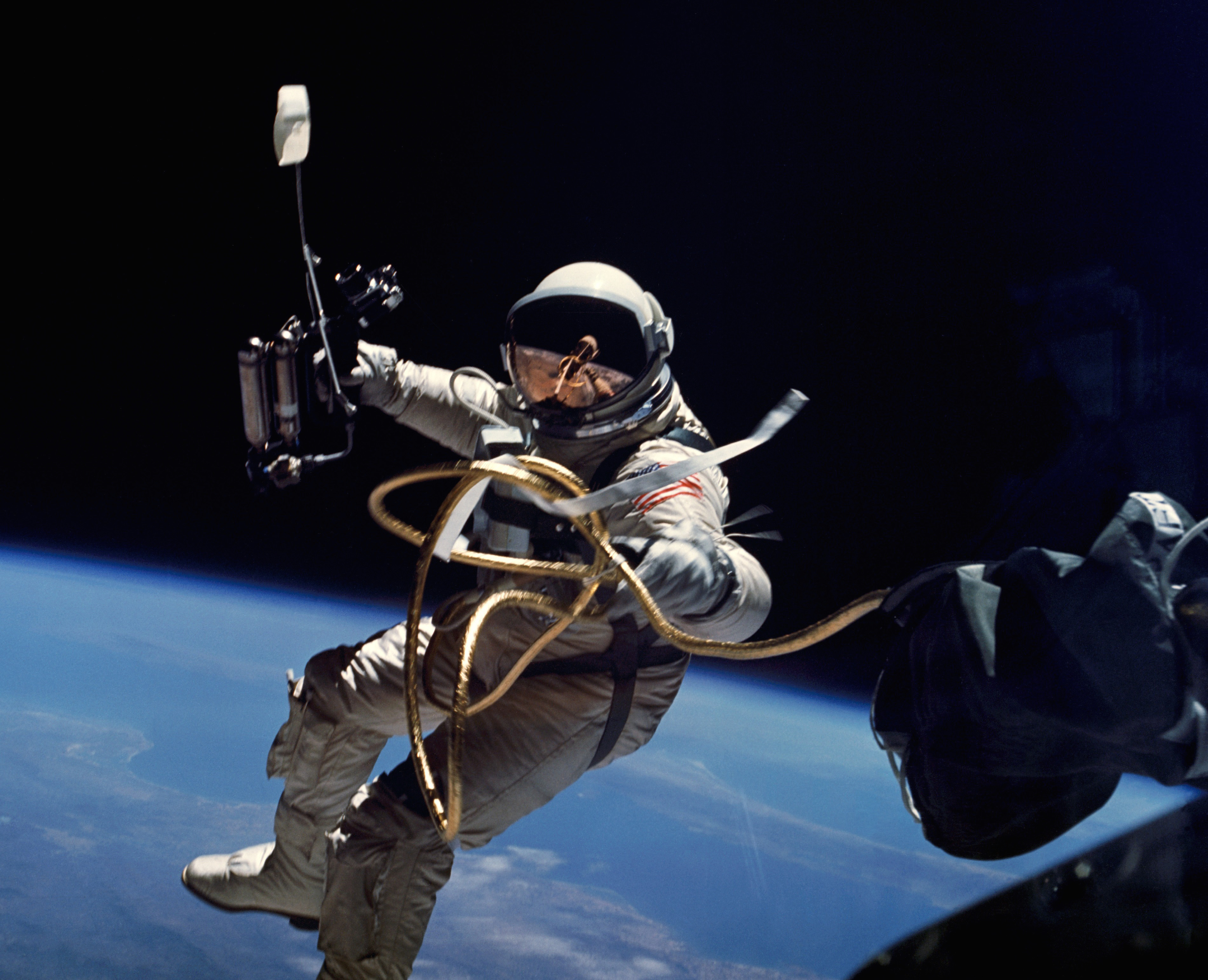 Croppede version of File:Ed White performs first U.S. spacewalk - GPN-2006-000025.jpg